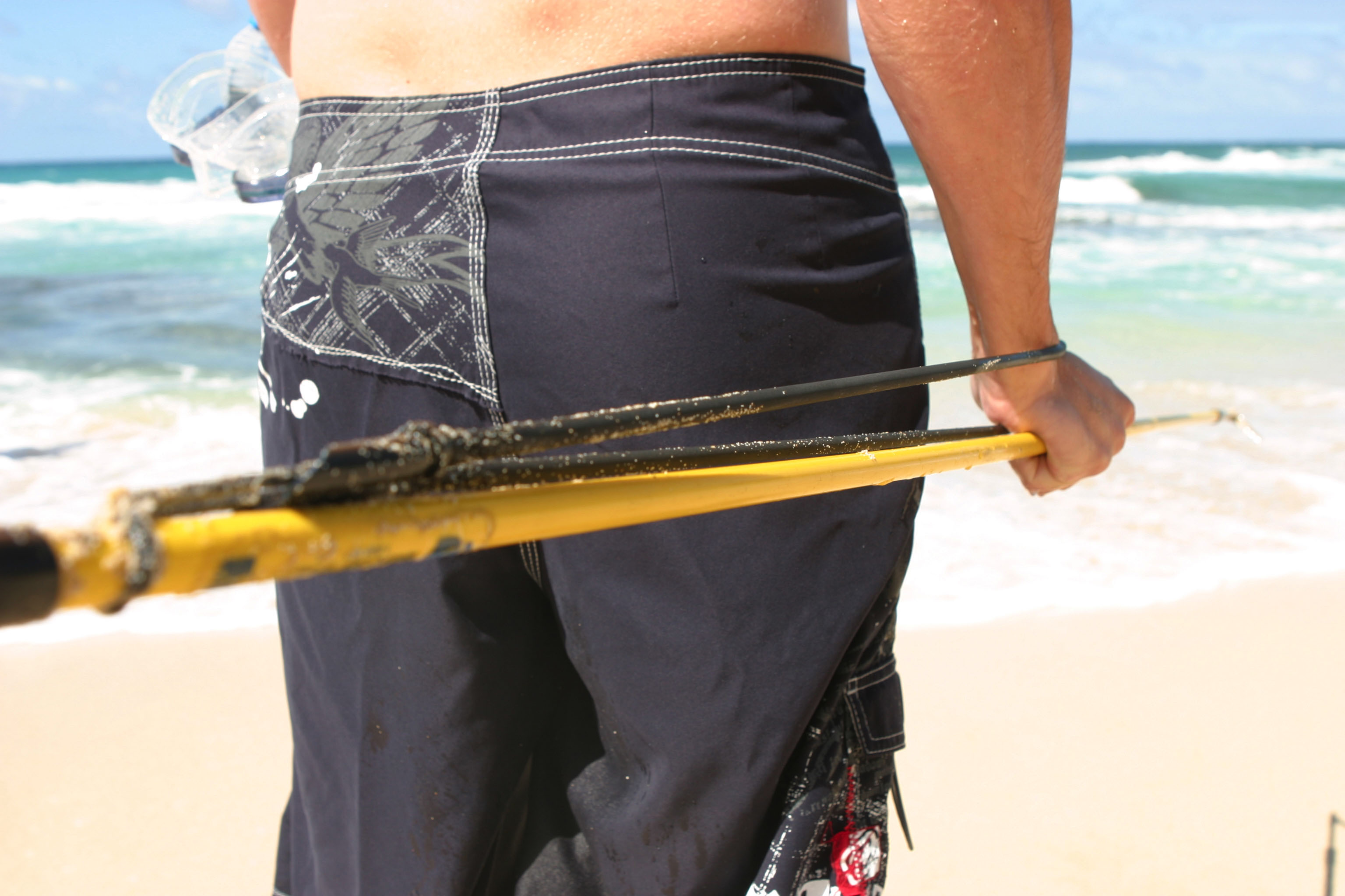 A Hawaiian sling spear is one of the most common spears used when spear fishing. It works by pulling back on a rubber band and releasing the pole, the spear is then projected into the direction it is pointed at.